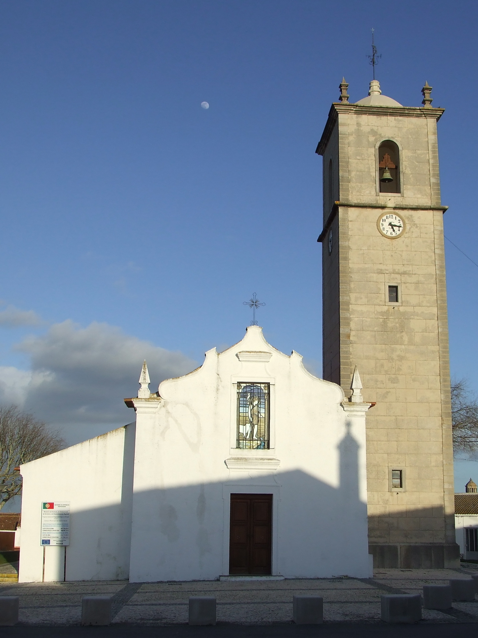 Casével Mother Church